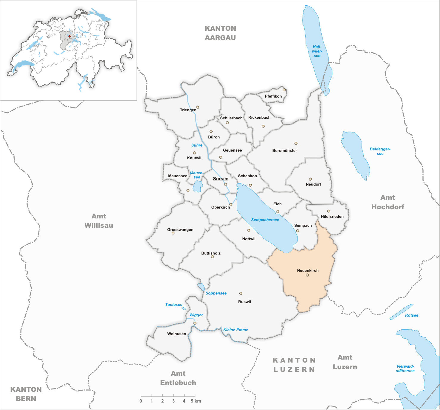 Municipality Neuenkirch